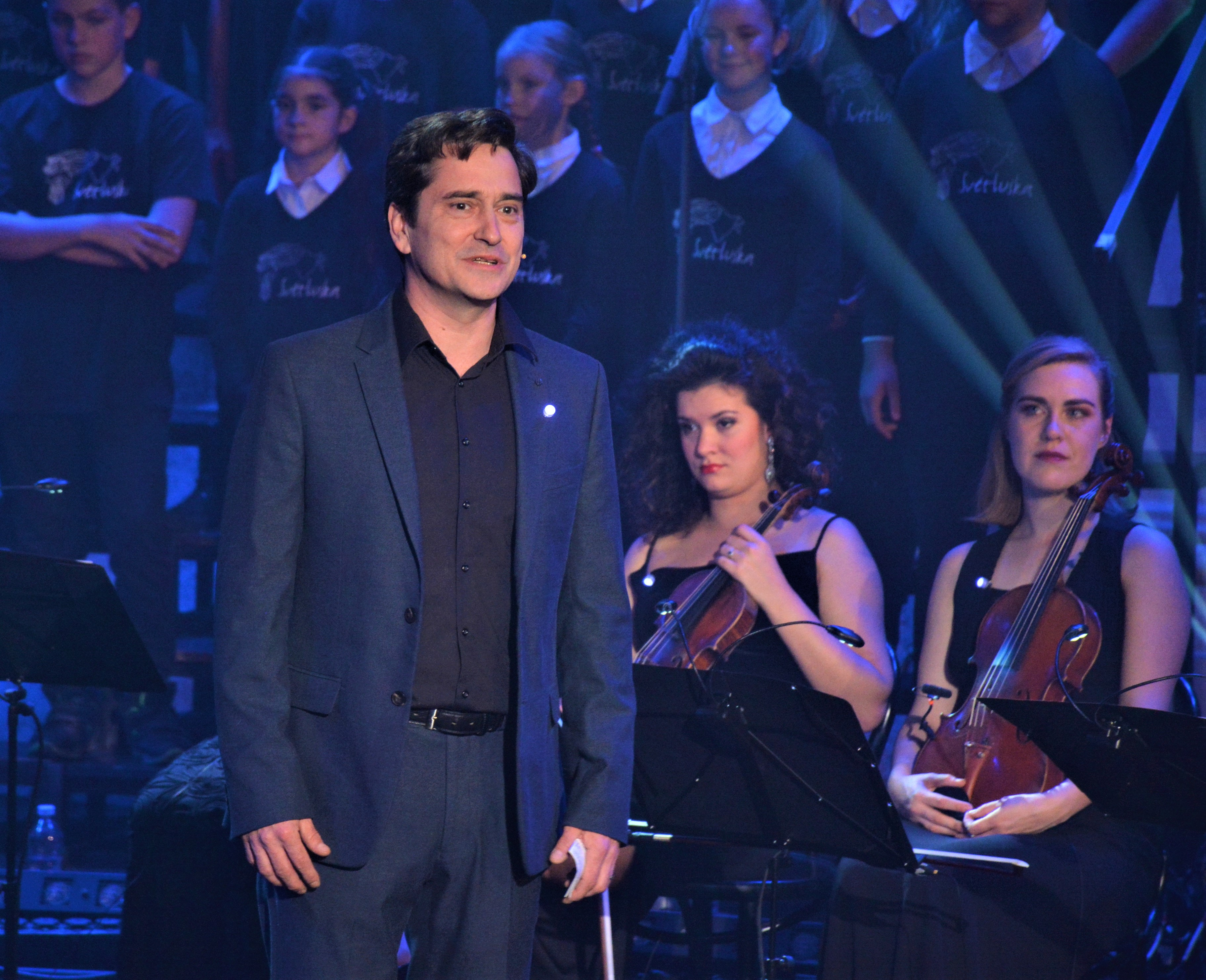 Saša Rašilov, Czech actor